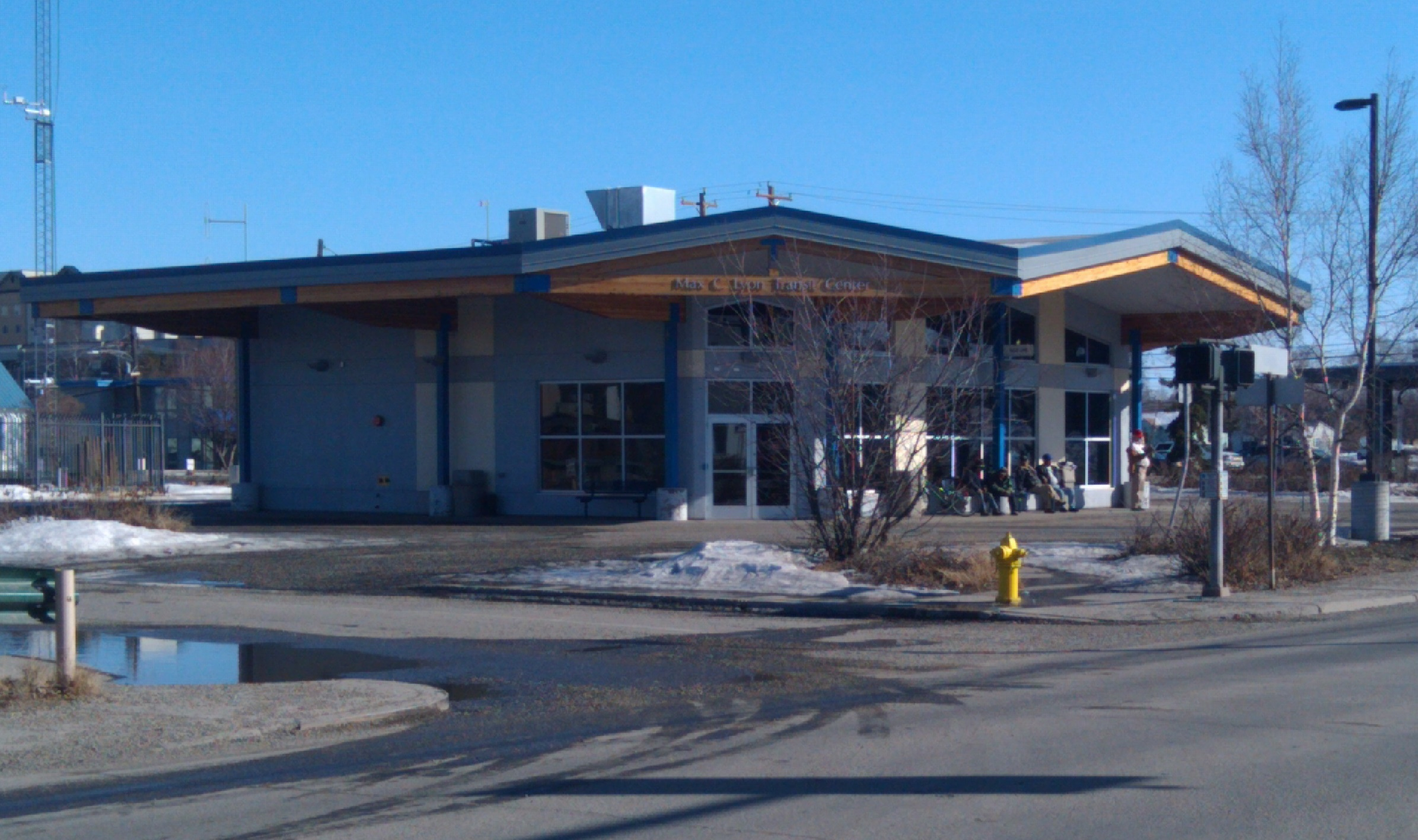 Max C. Lyon, Jr. Transit Center in downtown Fairbanks, Alaska. Utilized by the MACS transit system operated by the Fairbanks North Star Borough, and to a limited extent other transportation providers.